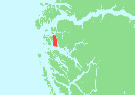 Locator map of Sandøy, Sogn og Fjordane, Norway